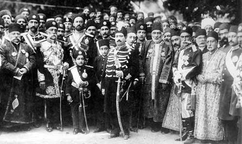 Mohammad Ali Shah Qajar and entourages